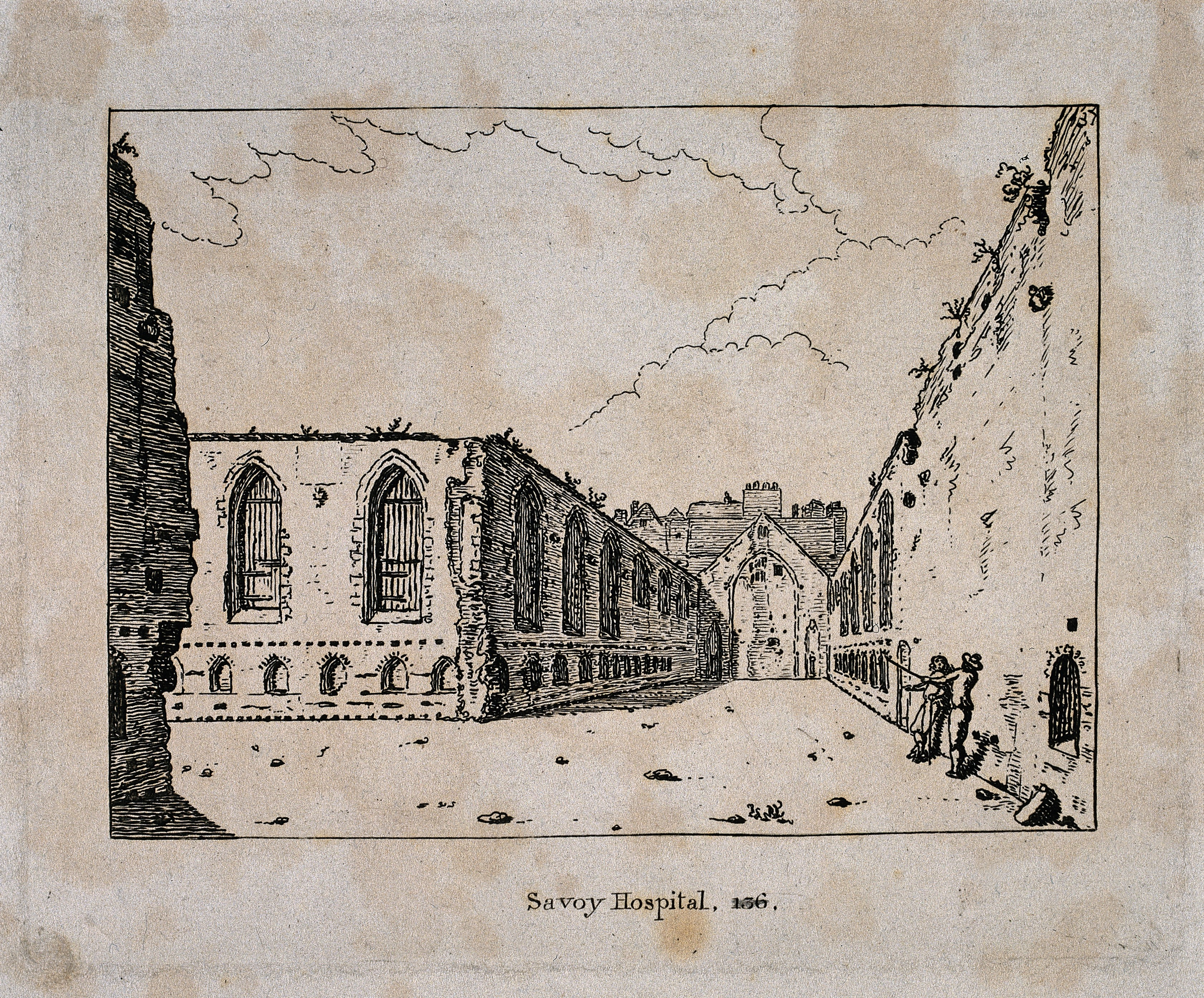 Savoy Hospital Iconographic Collections